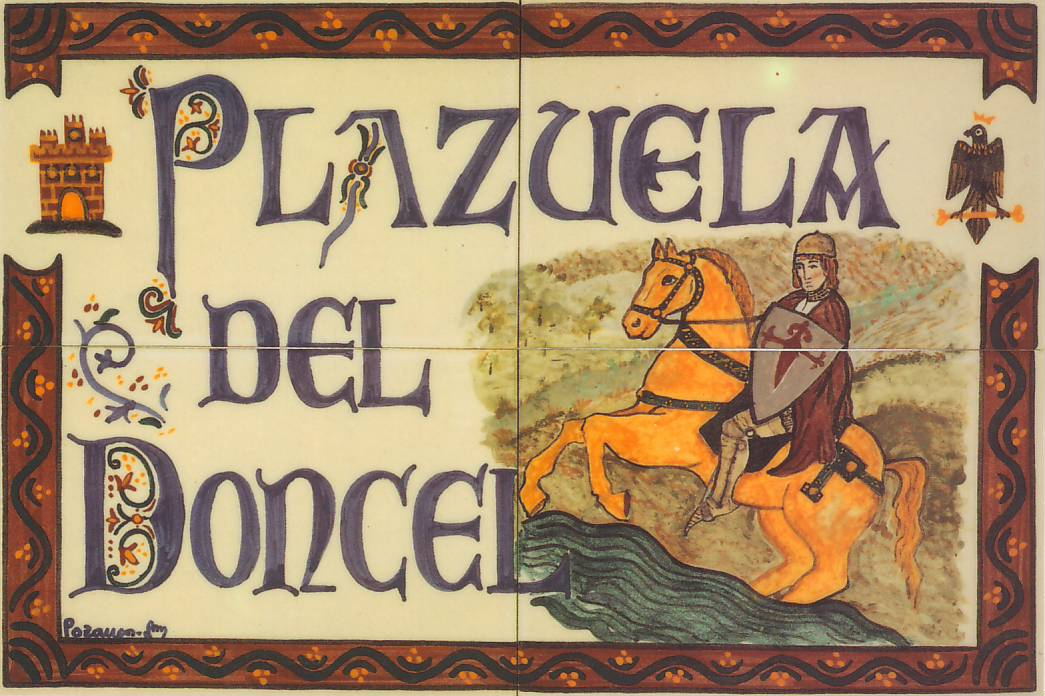 Plaza de Doncel in Sigüenza (Guadalajara Spain). The Alfar del Monte (Pozancos) ceramics.